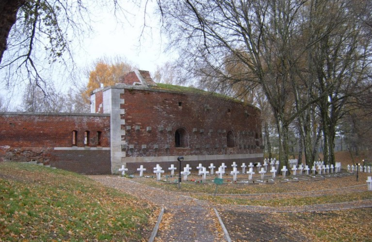 Rotunda Museum in Zamość